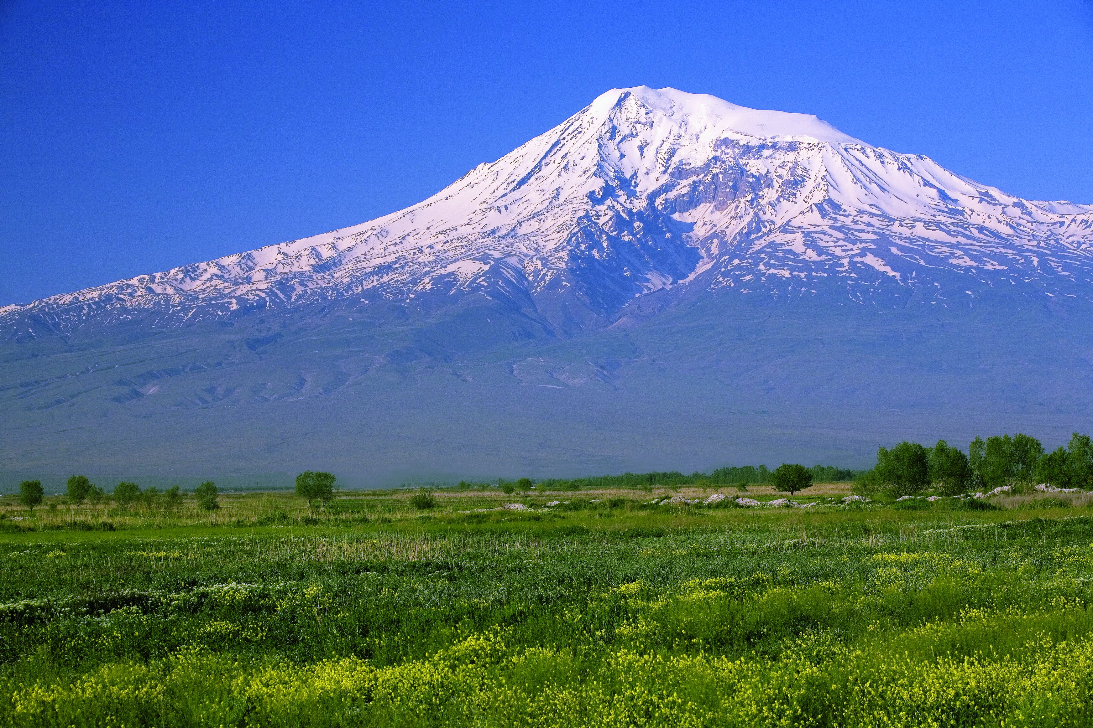 Great Ararat